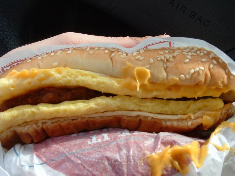 Enormous Omelet Sandwich unwrapped